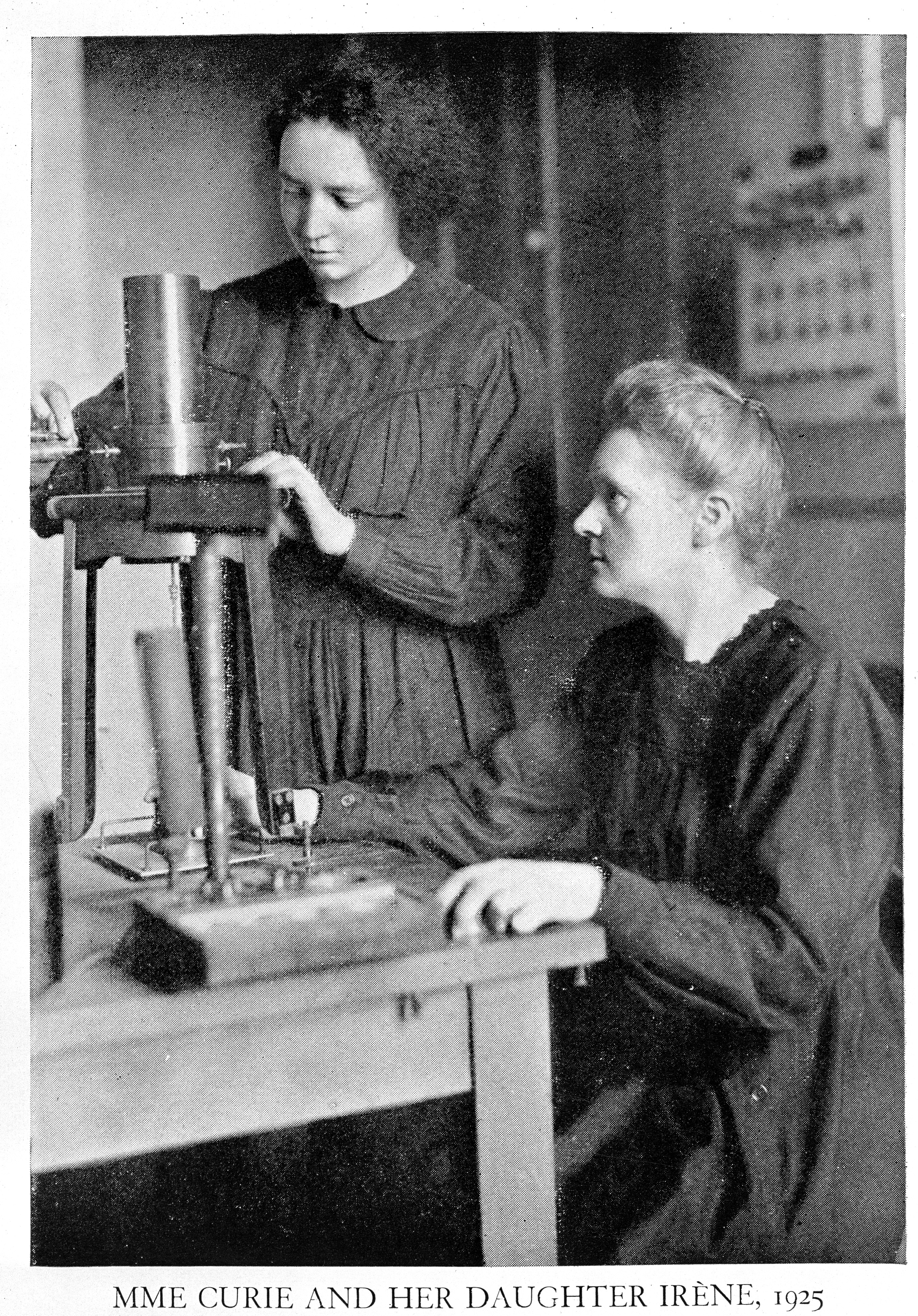 Photograph: portrait of Marie Curie and her daughter, Irene; anon., 1925. Wellcome Images Keywords: Marie Curie